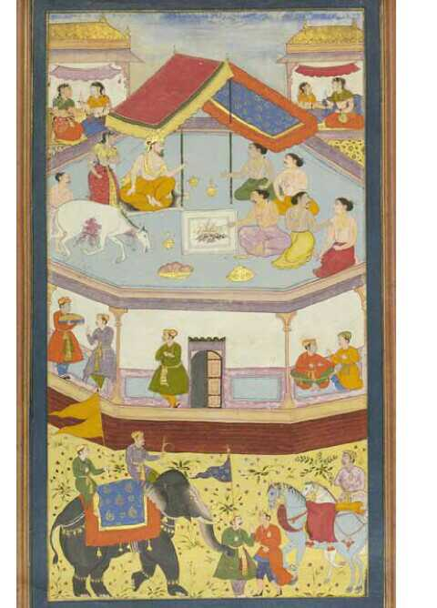 From Ashwamedhikaparwa of jaimini bharata.